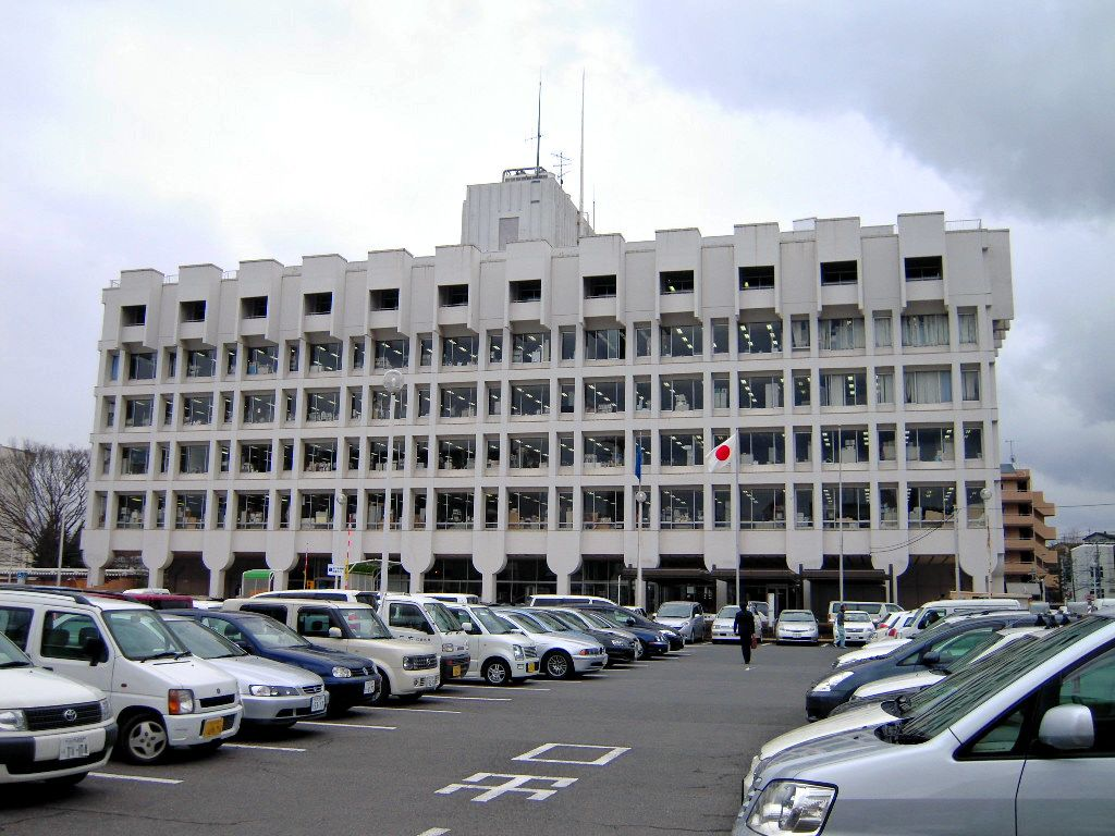 Mito city office